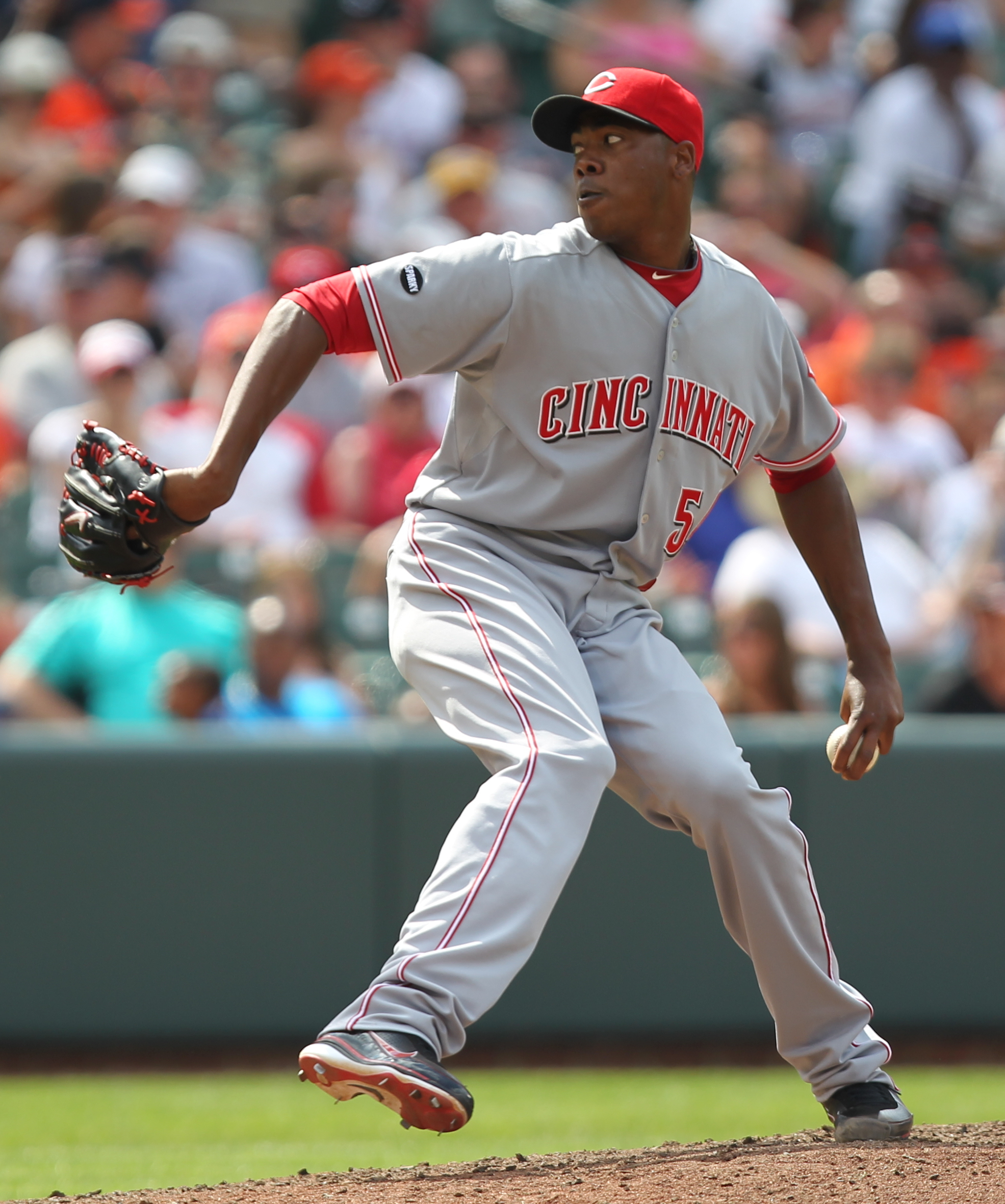 Reds at Orioles June 26, 2011.